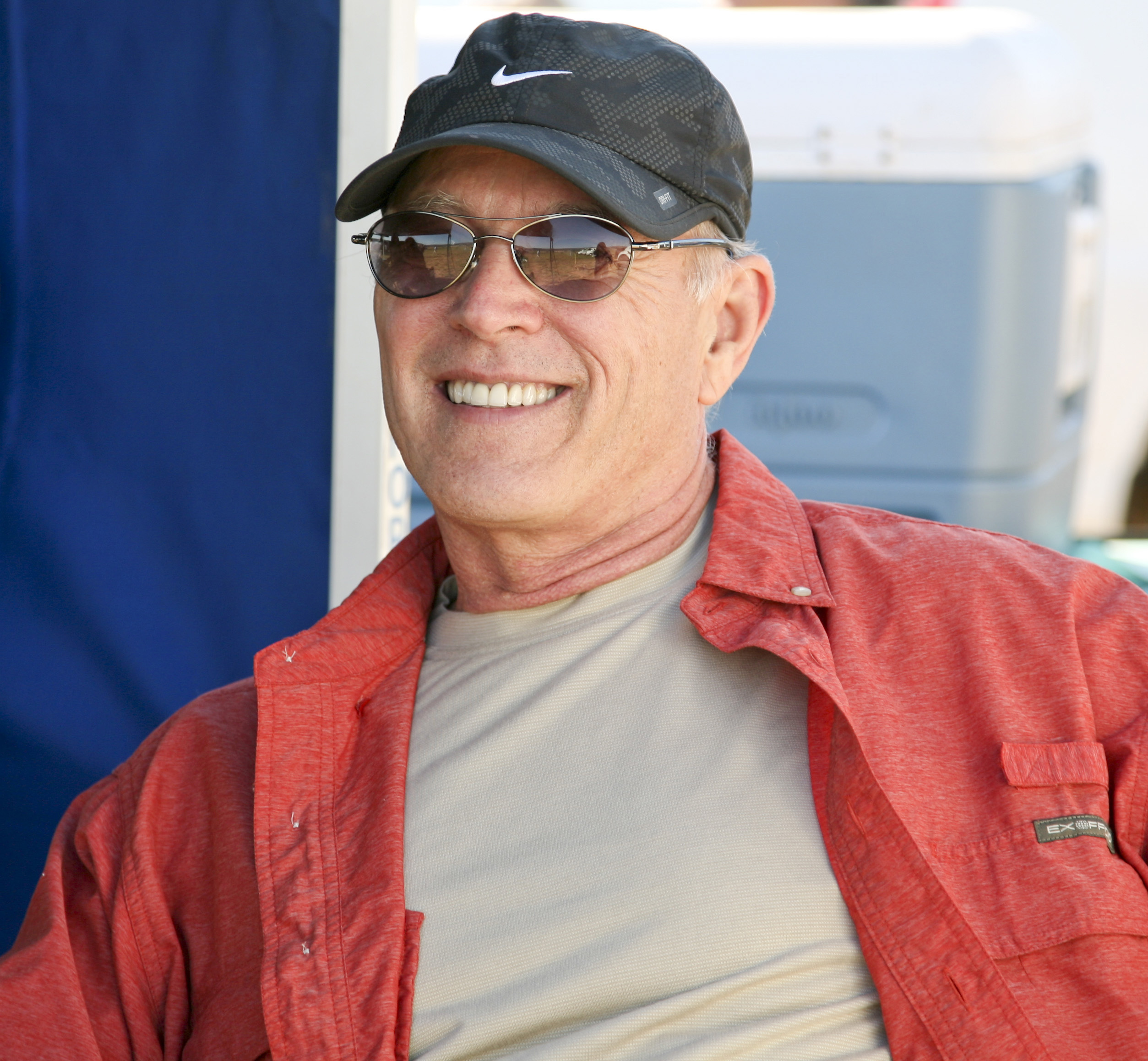 Candid photograph of film producer Frank Marshall